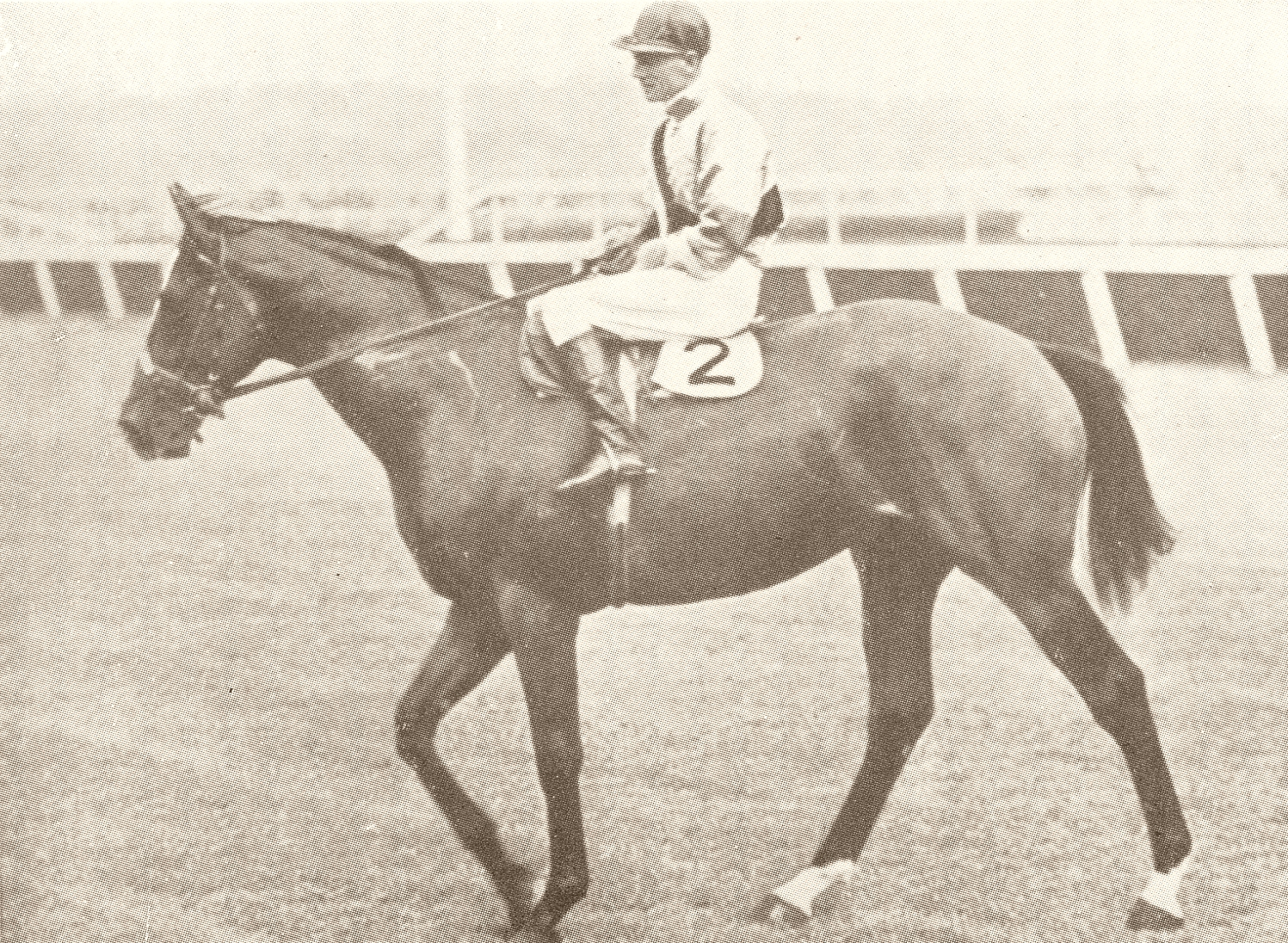 High Caste (NZ) was a versatile Thoroughbred racehorse who was considered the best two-year-old in New Zealand after winning three of his four race starts.